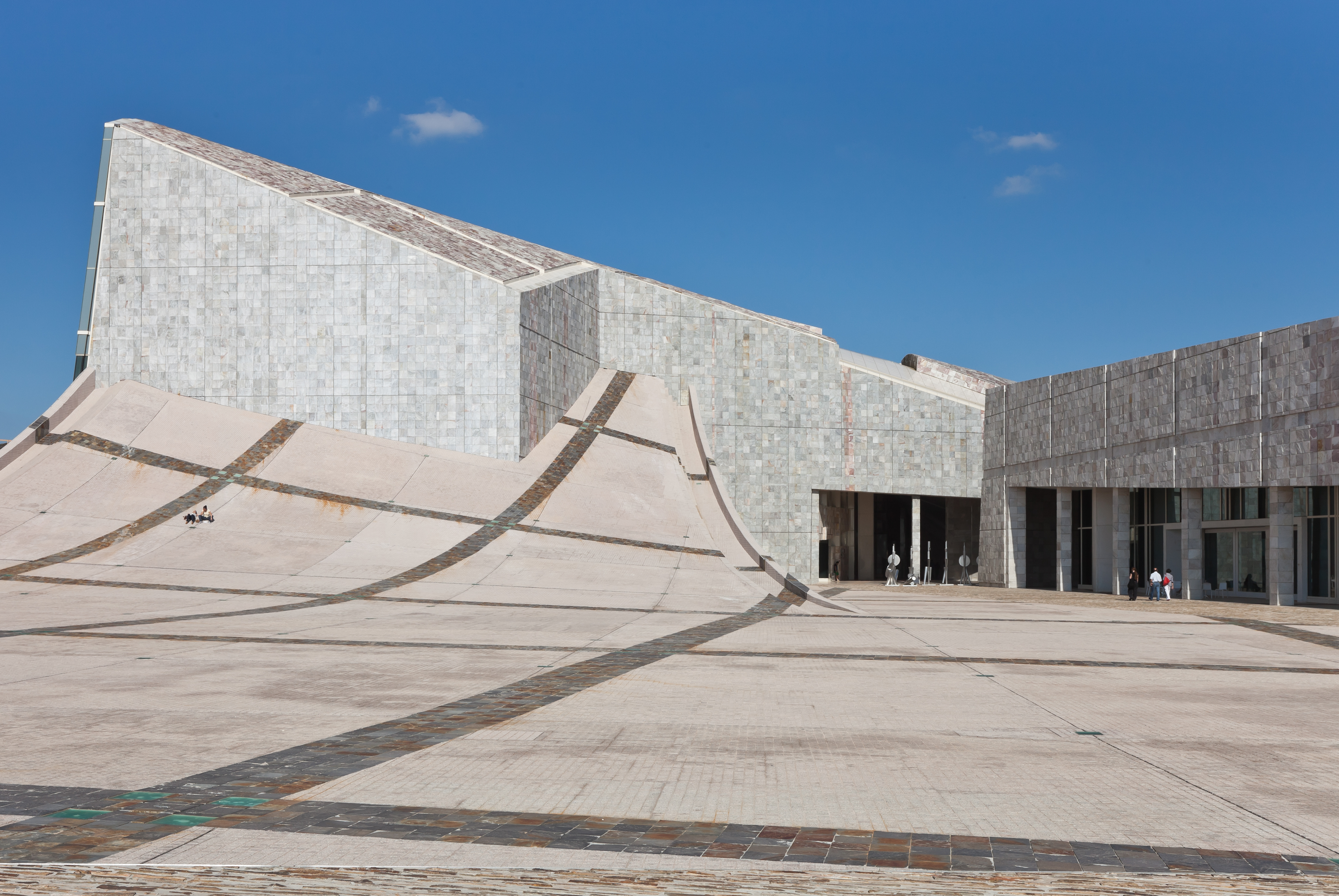 Library and Archive of Galicia. City of the Culture of Galicia. Santiago de Compostela. Peter EisenmanGalego: Biblioteca e arquivo de Galicia. Cidade da Cultura. Santiago de Compostela. Peter Eisenman